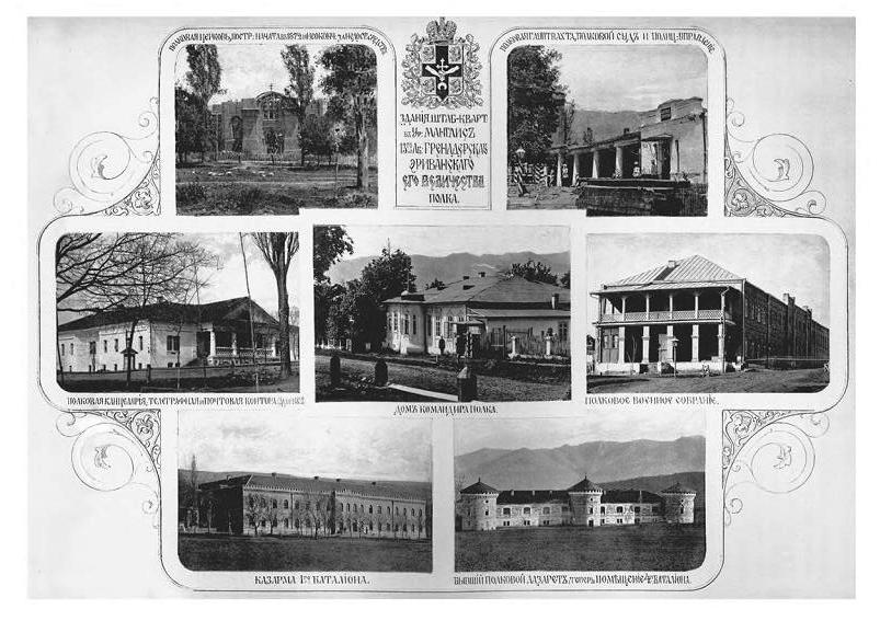 Manglisi military headquarters buildings (1892)